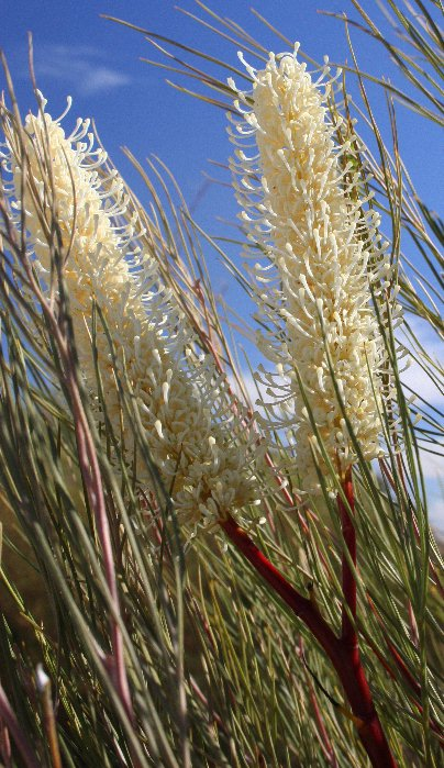 Grevillea candelabroides near Mingenew WA photo Cas liber